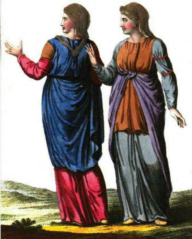 Dacian women in the category Dacia, ancient Dacians' life cf. Robert de Spallart "Tableau historique des costumes, des moeurs et des usages des principaux peoples de l’Antiquite et du Moyen Age, Volume 2", Metz, Collignon, 1804